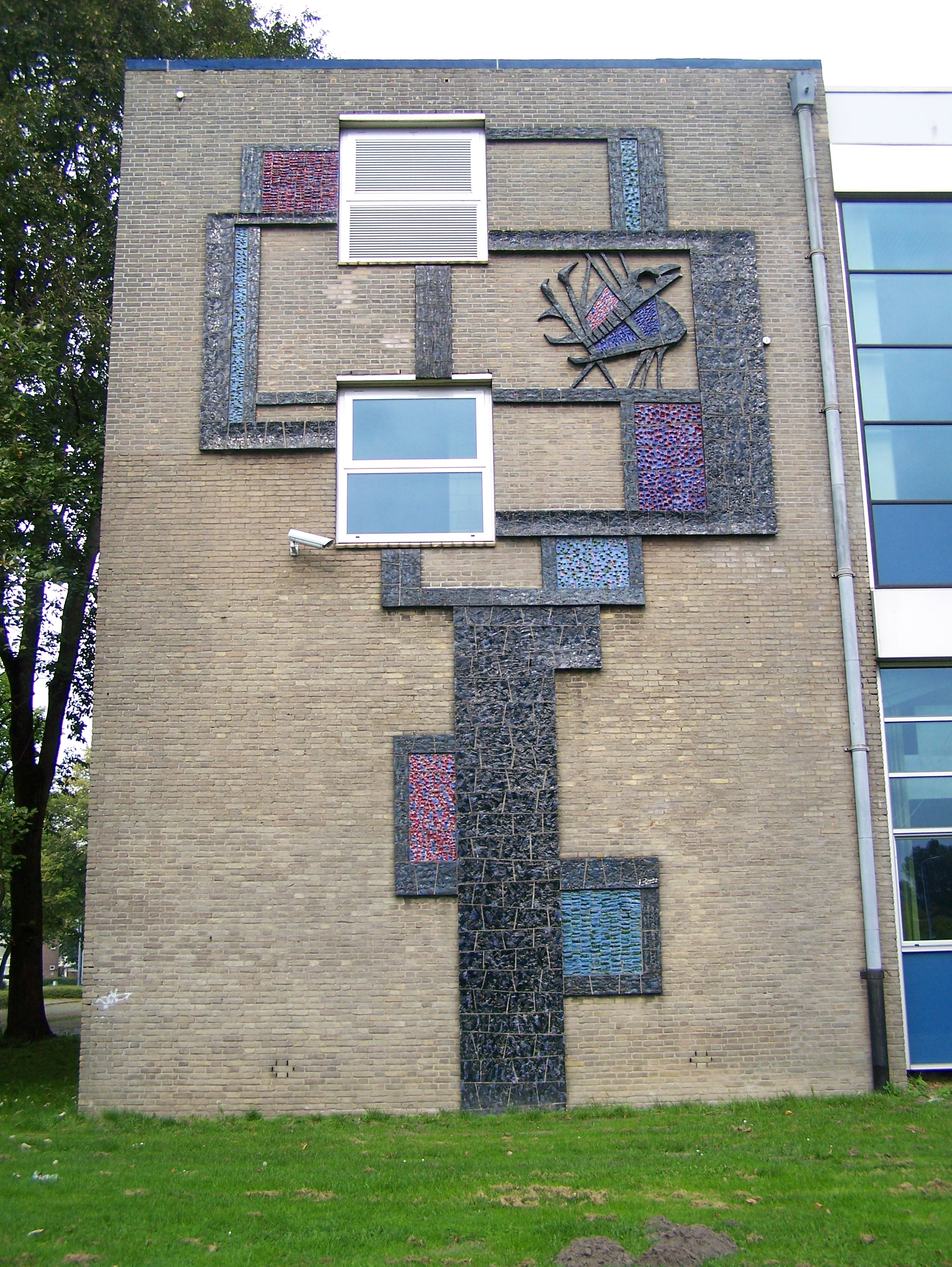 Ceramic wall object. Placed at the outer wall (Koelmalaan side) of the Petrus Canisius College (at the Vondelstraat) in Alkmaar. Made by Jan van Druten.